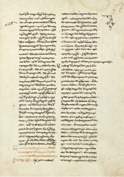 John of Damascus, “The Orthodox Faith”, translated by Ephrem Mtsire; 12th c.